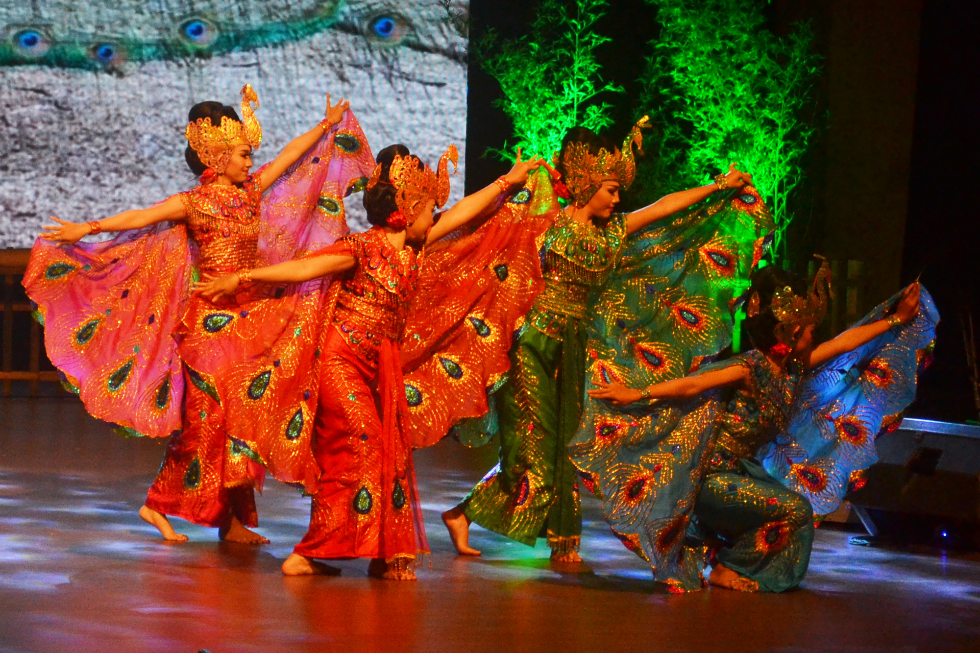 Tari Merak Dalam acara "Iwung Kalbu" yang di selenggarakan di Gedung Budaya Sabilulungan, Soreang, Kabupaten Bandung, pada Tanggal 28 September 2018.